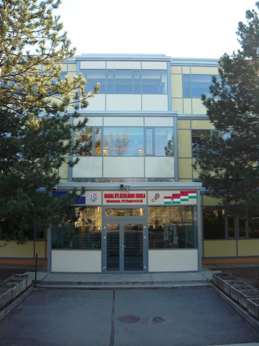 One of the elementary schools of Rákoscsaba-újtelep